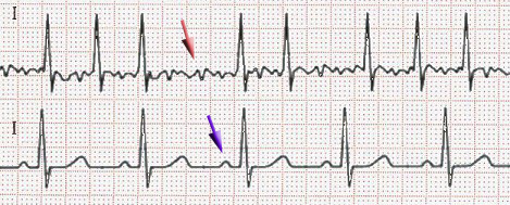 Scheme of atrial fibrillation (top) and sinus rhythm (bottom). The purple arrow indicates a P wave, which is lost in atrial fibrillation.